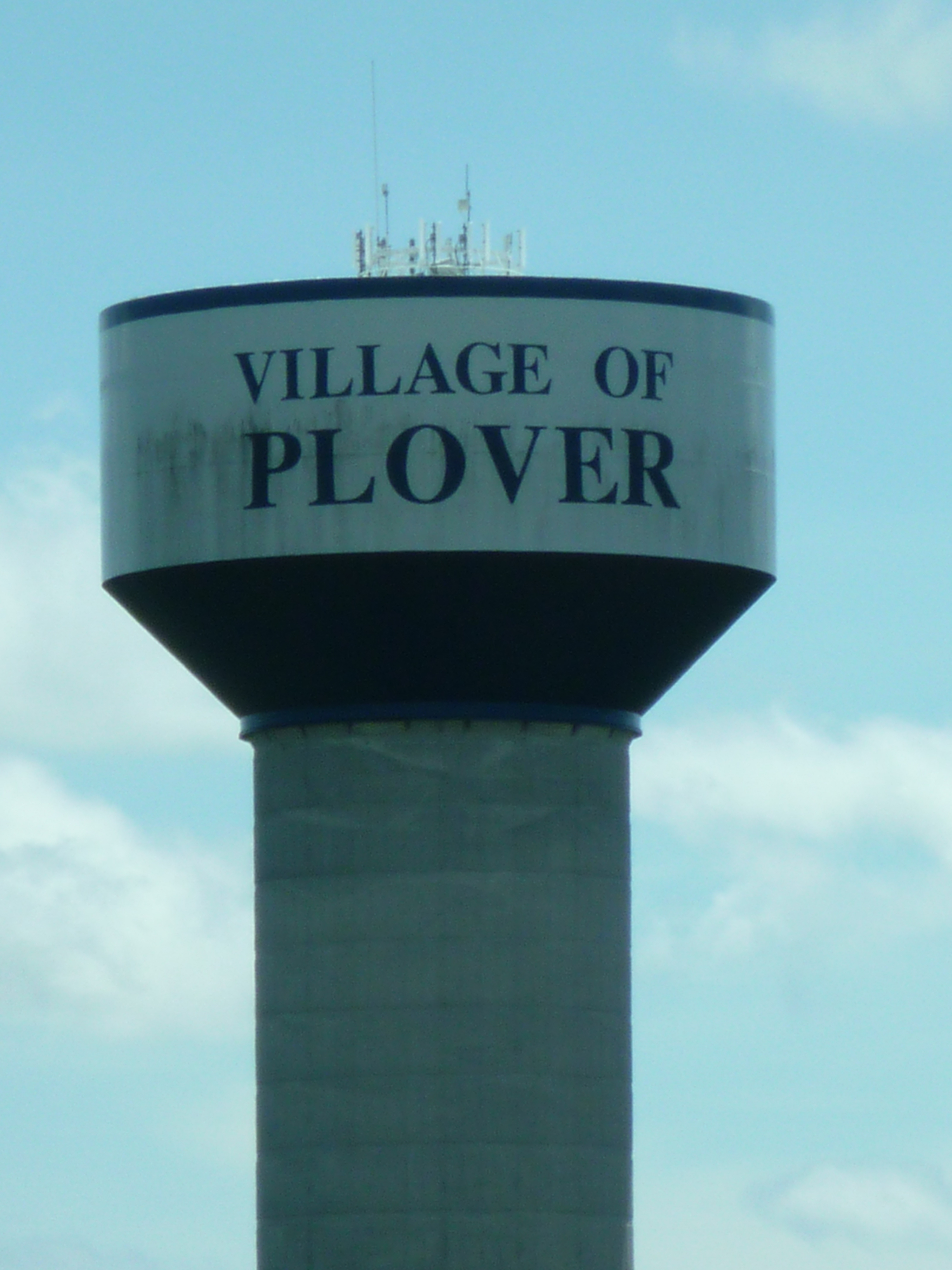 Plover, Wi Watertower